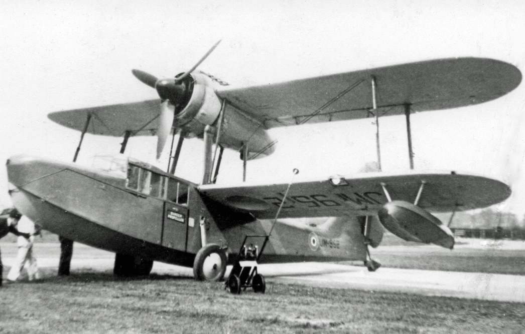 Supermarine Sea Otter I JM952 of the Marine Aircraft Experimental Establishment